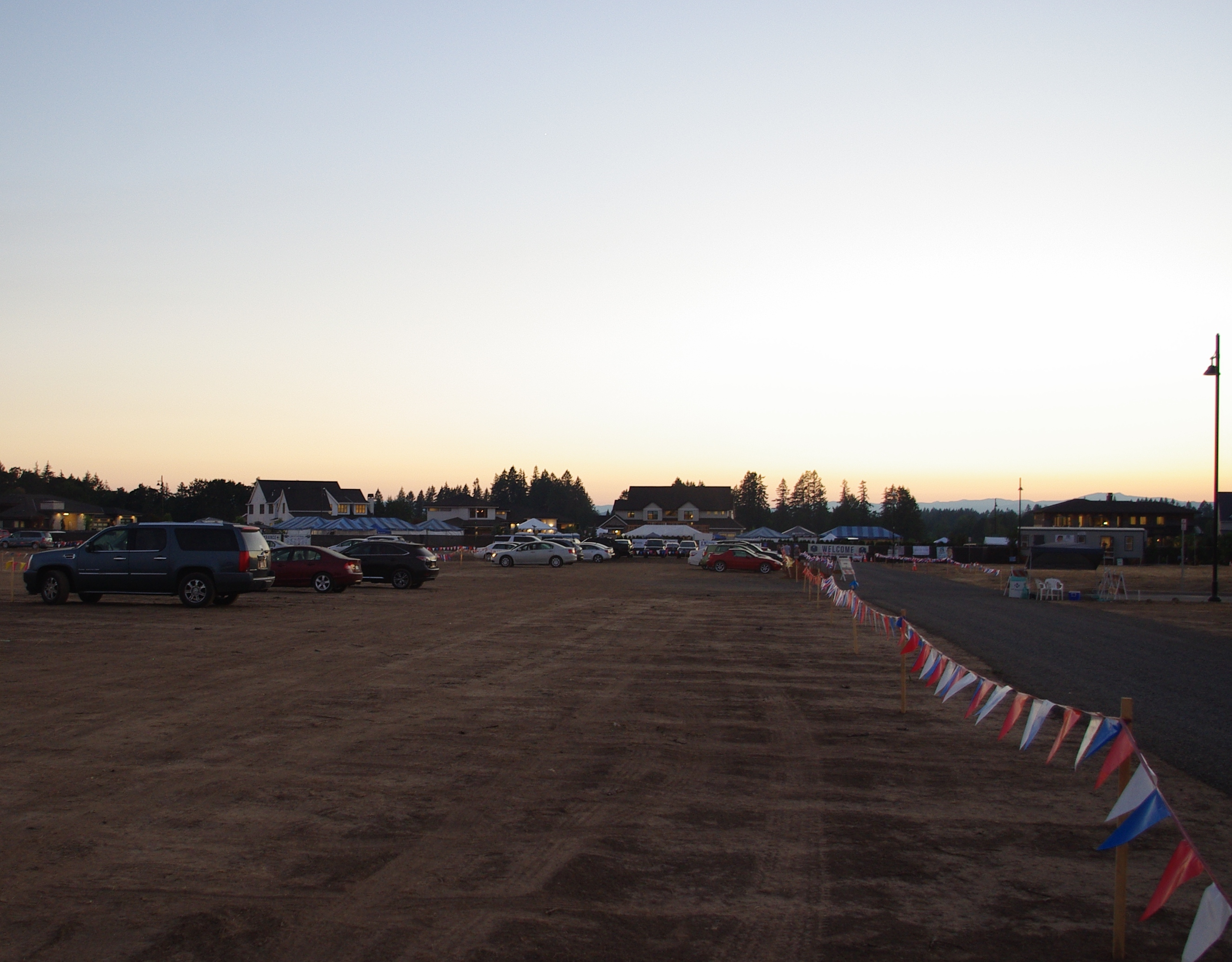 2018 Street of Dreams in July 2018 in Hillsboro, Oregon.